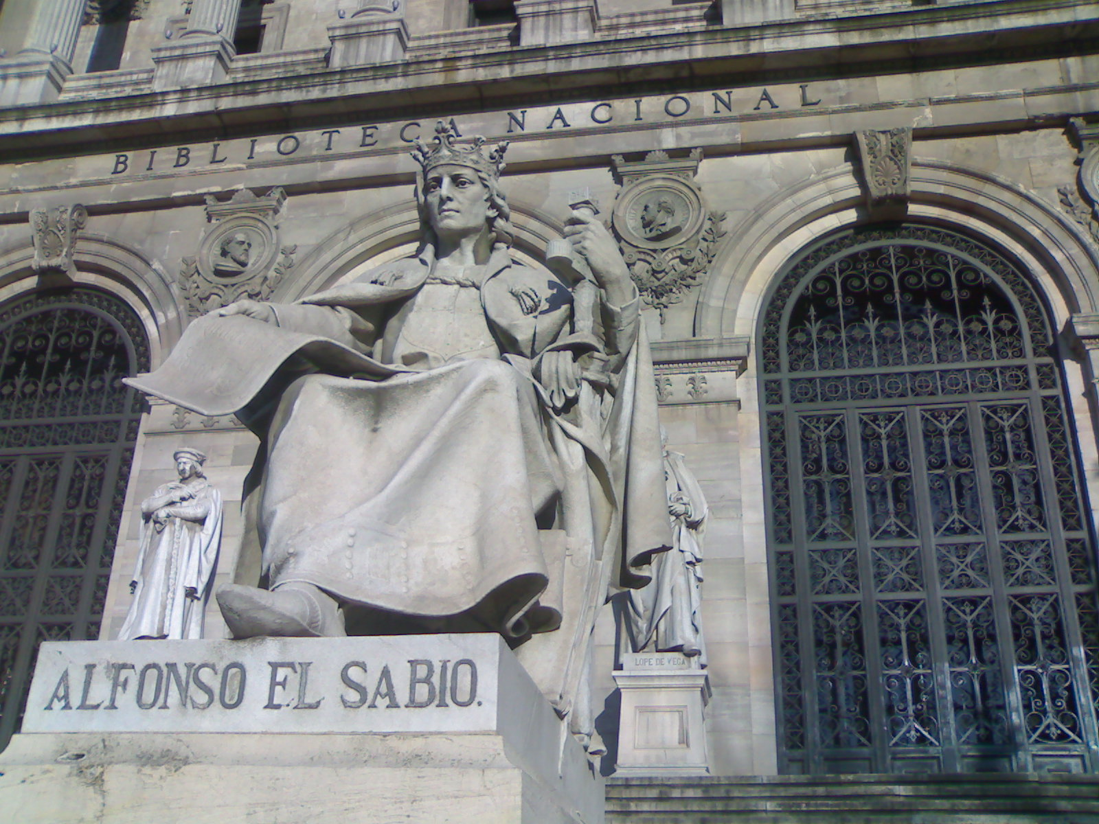 Alfonso X at the National Library, Spain